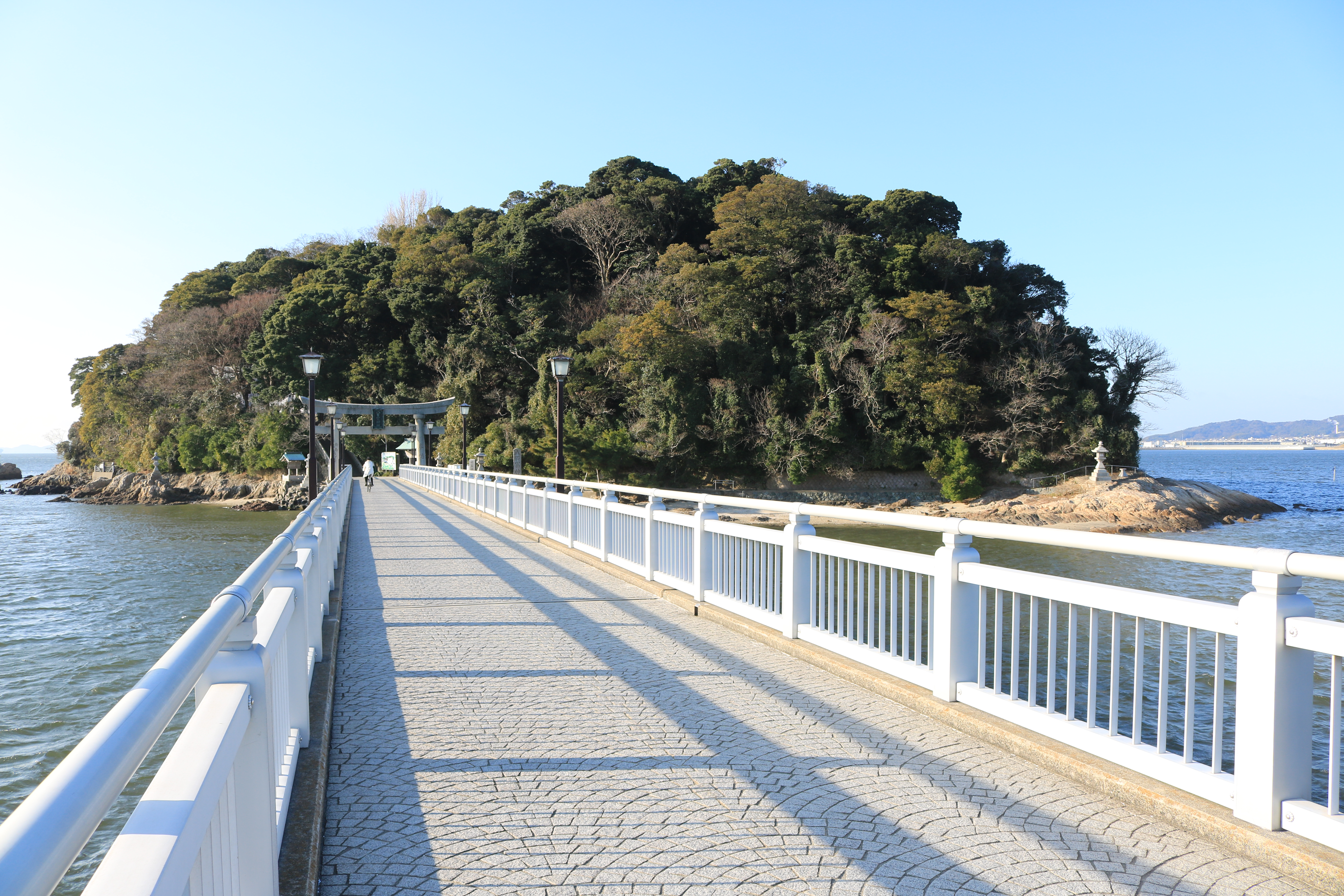 Takeshima Bridge and Take Island in Gamagori, Aichi prefecture, Japan.